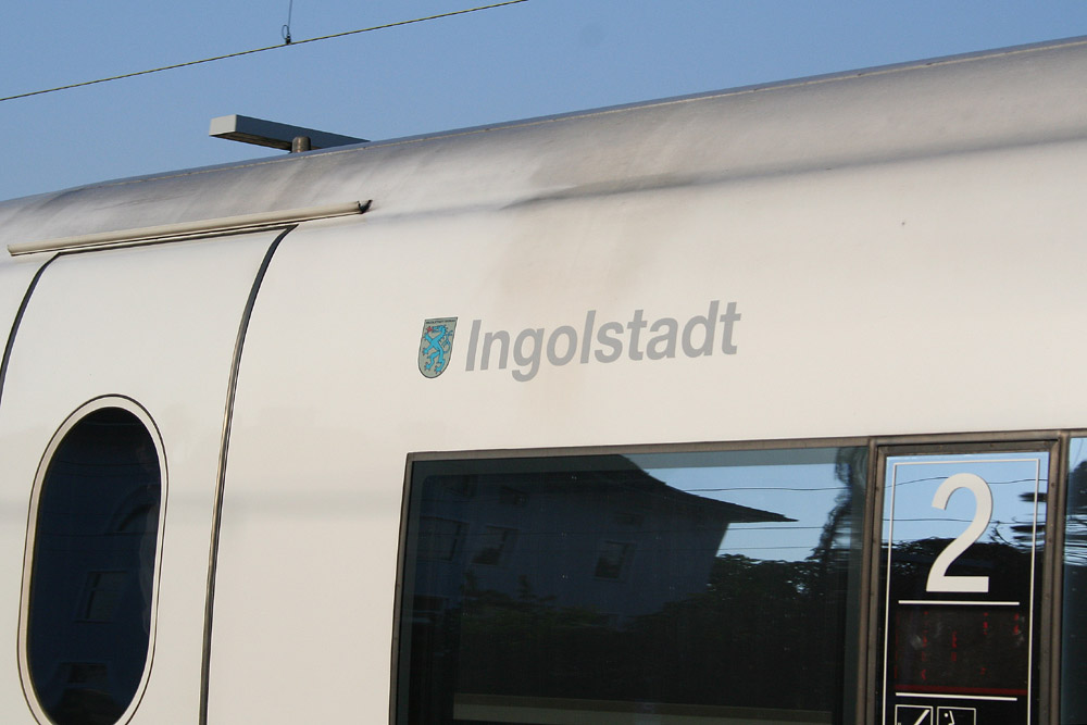 The name and coat of arms of the city of Ingolstadt, Germany, on an ICE 3 high-speed train